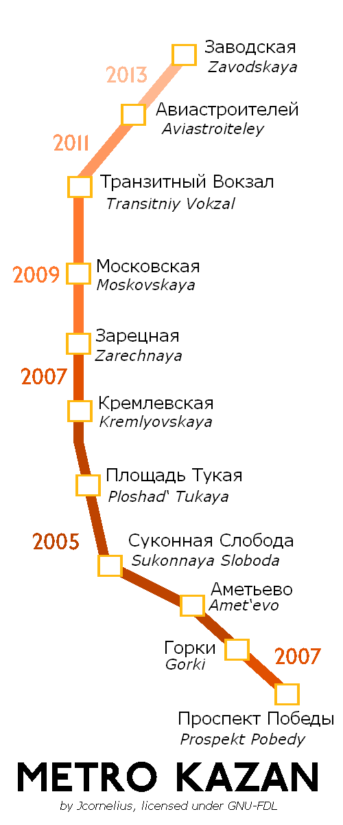 Map of the Kasan Metro with english and russian labeling